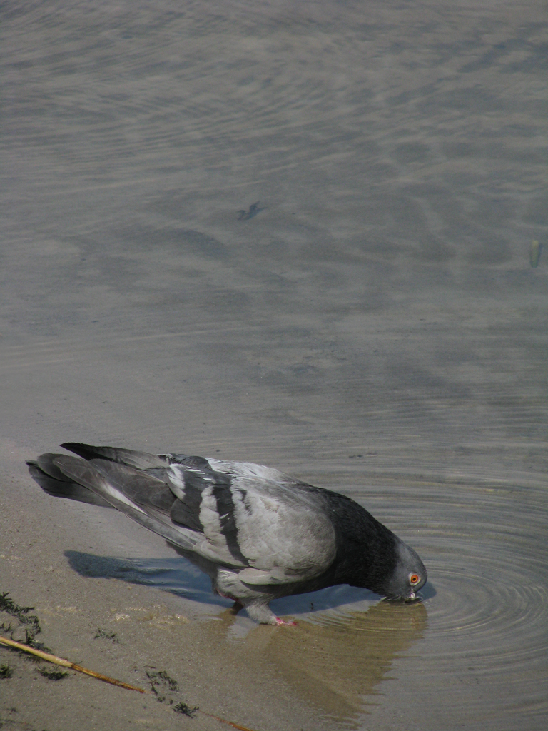 Another pigeon. This time it is thursty and sucking water from the Vyrlytsia lake.